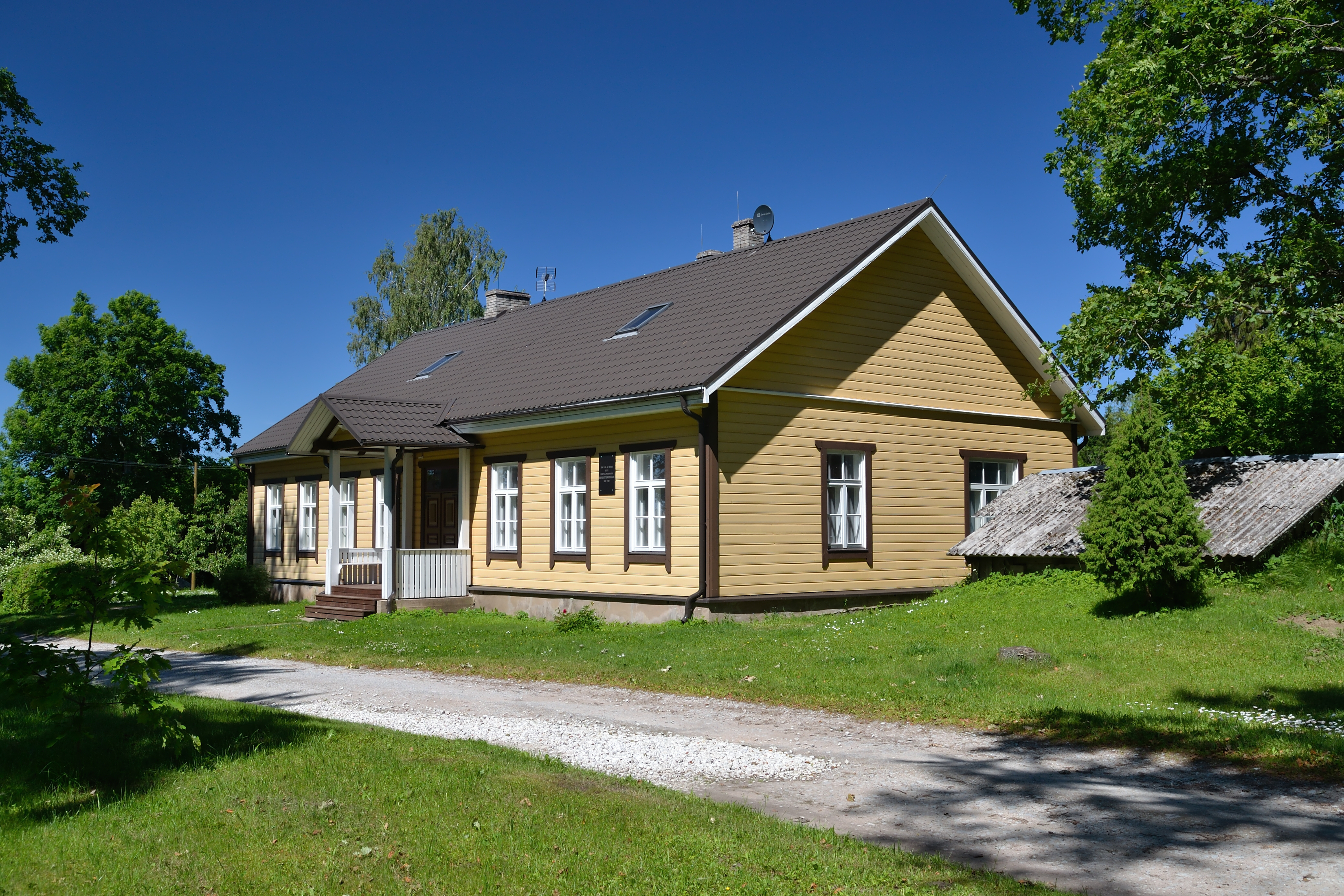 Väägvere village school building